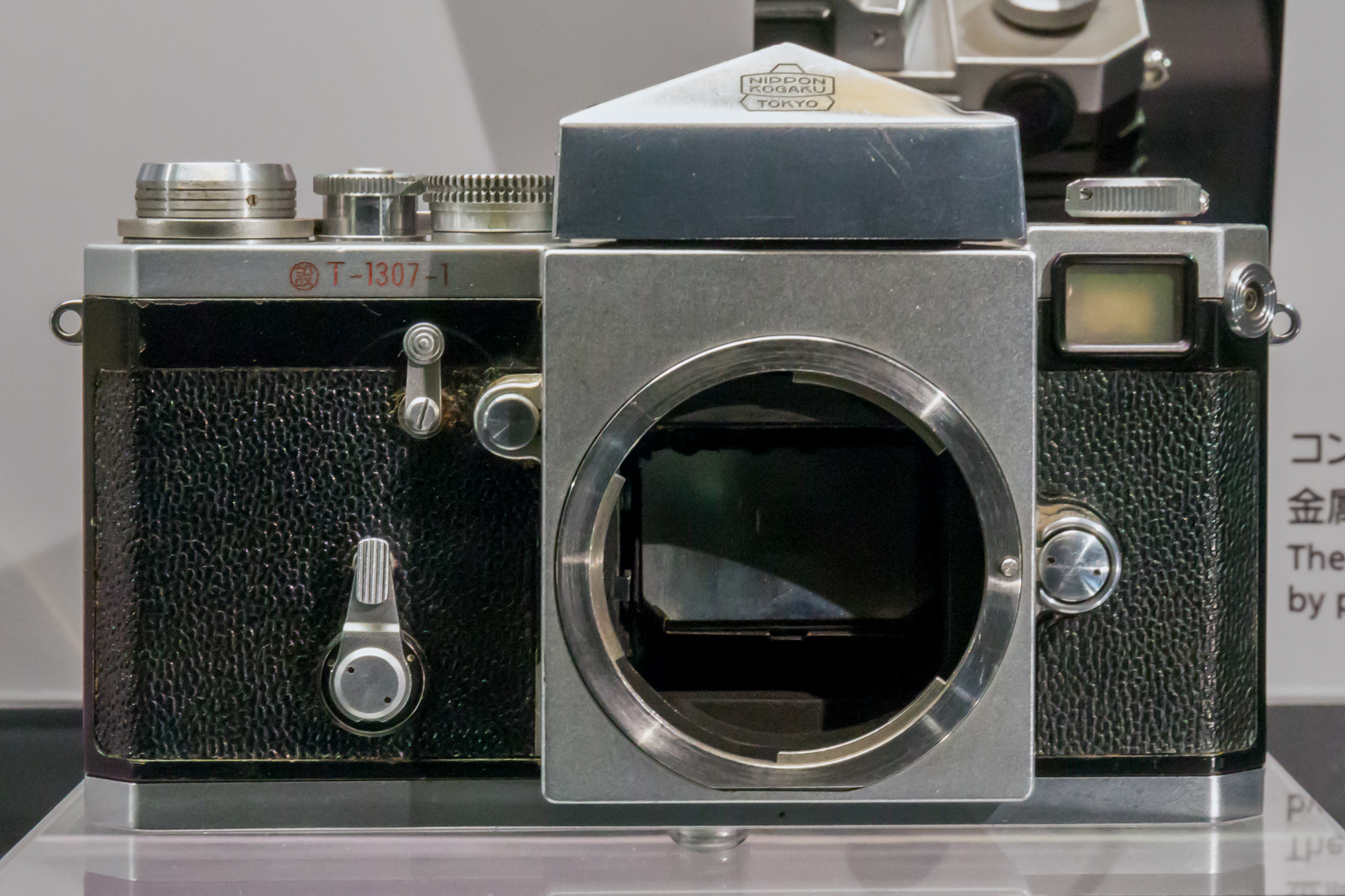 1957 Prototype Nikon F with Contour Viewfinder